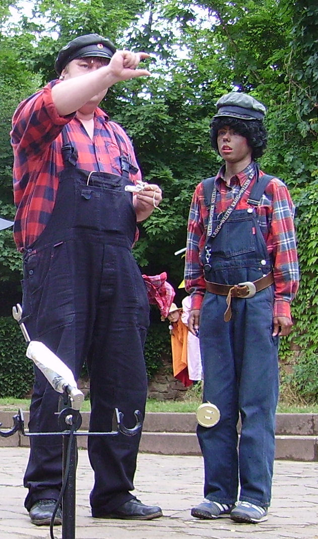 Freilichtbühne Mannheim